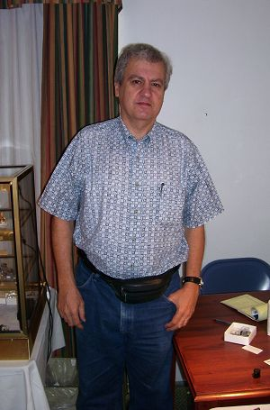 Photo of the brazilian mineralogist and geologist Luiz Alberto Dias Menezes.